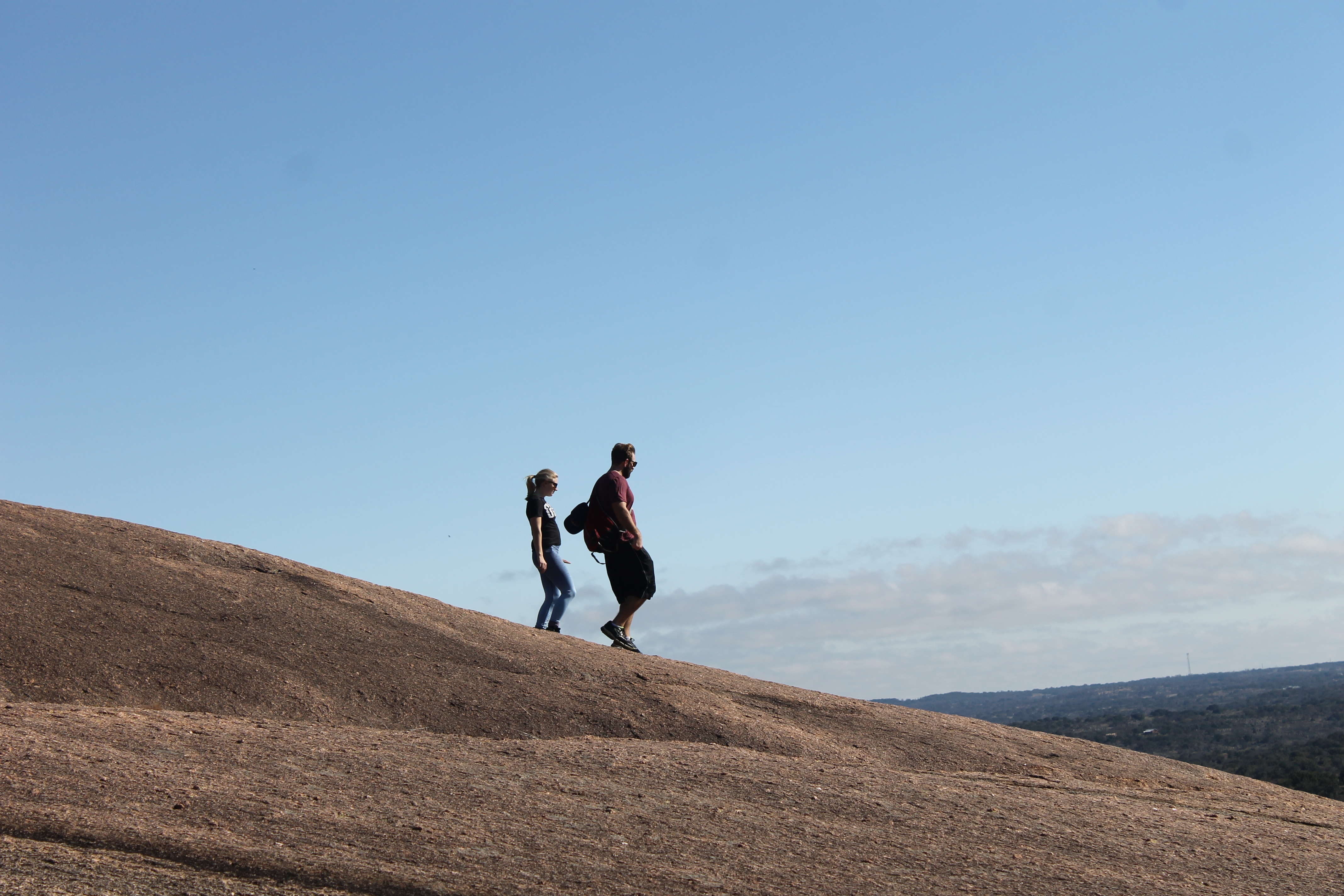 A couple descending Enchanted Rock, TX